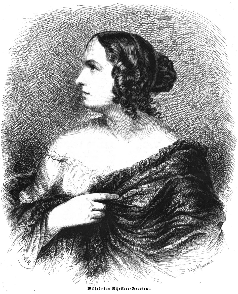 caption: "Wilhelmine Schröder-Devrient."